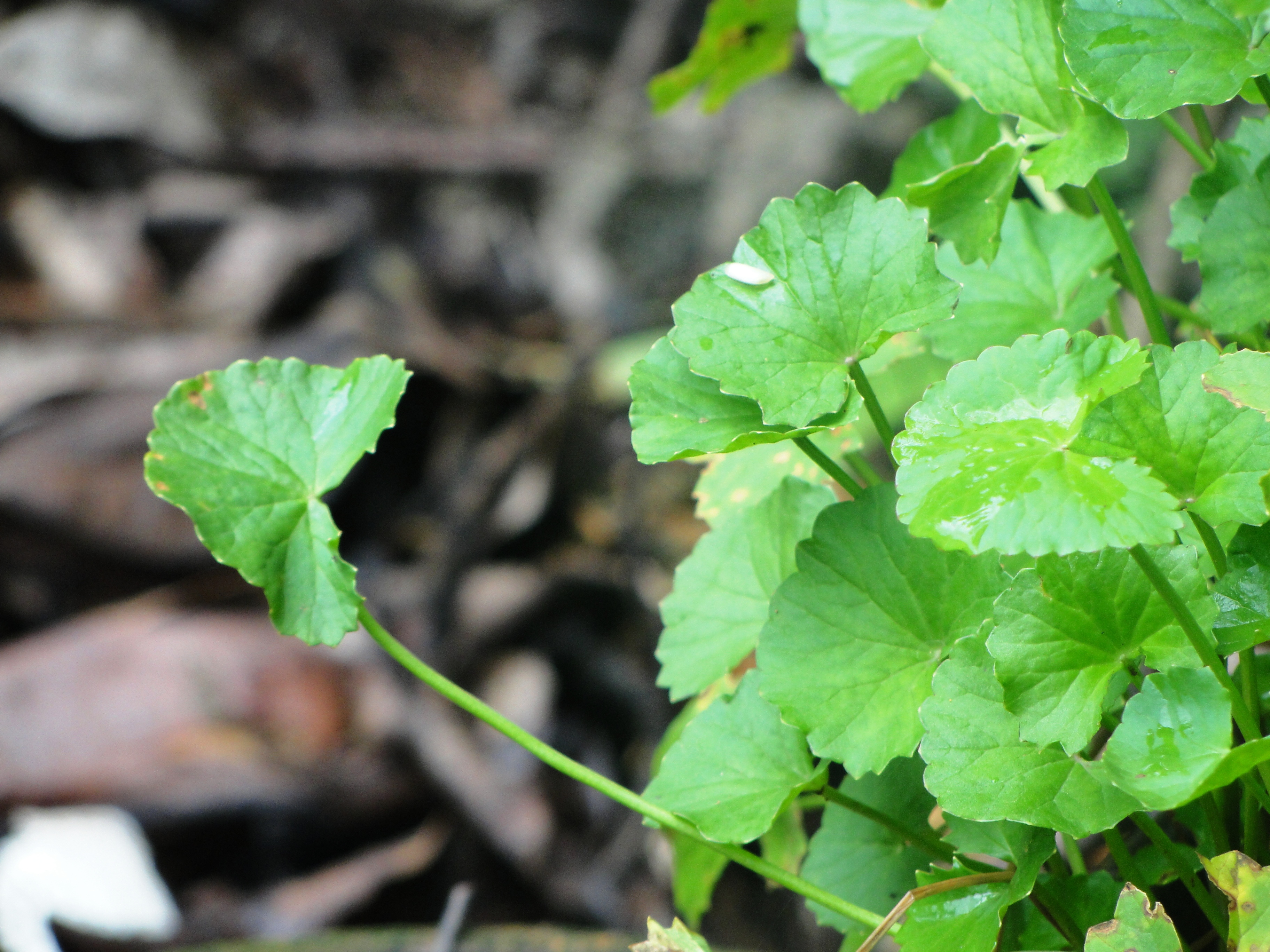 Centella asiatica in Karnataka, India